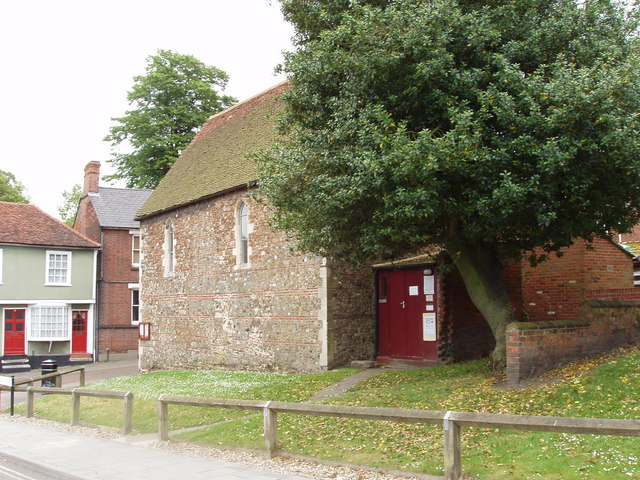 St Helen's Chapel, Maidenburgh Street, Colchester, Essex, seen from the northwest. Rebuilt in AD 1290 on the site of an earlier chapel and the foundations of the Roman theatre. Since 2000 it has been an Antiochian Orthodox Church, see the parish website [1].